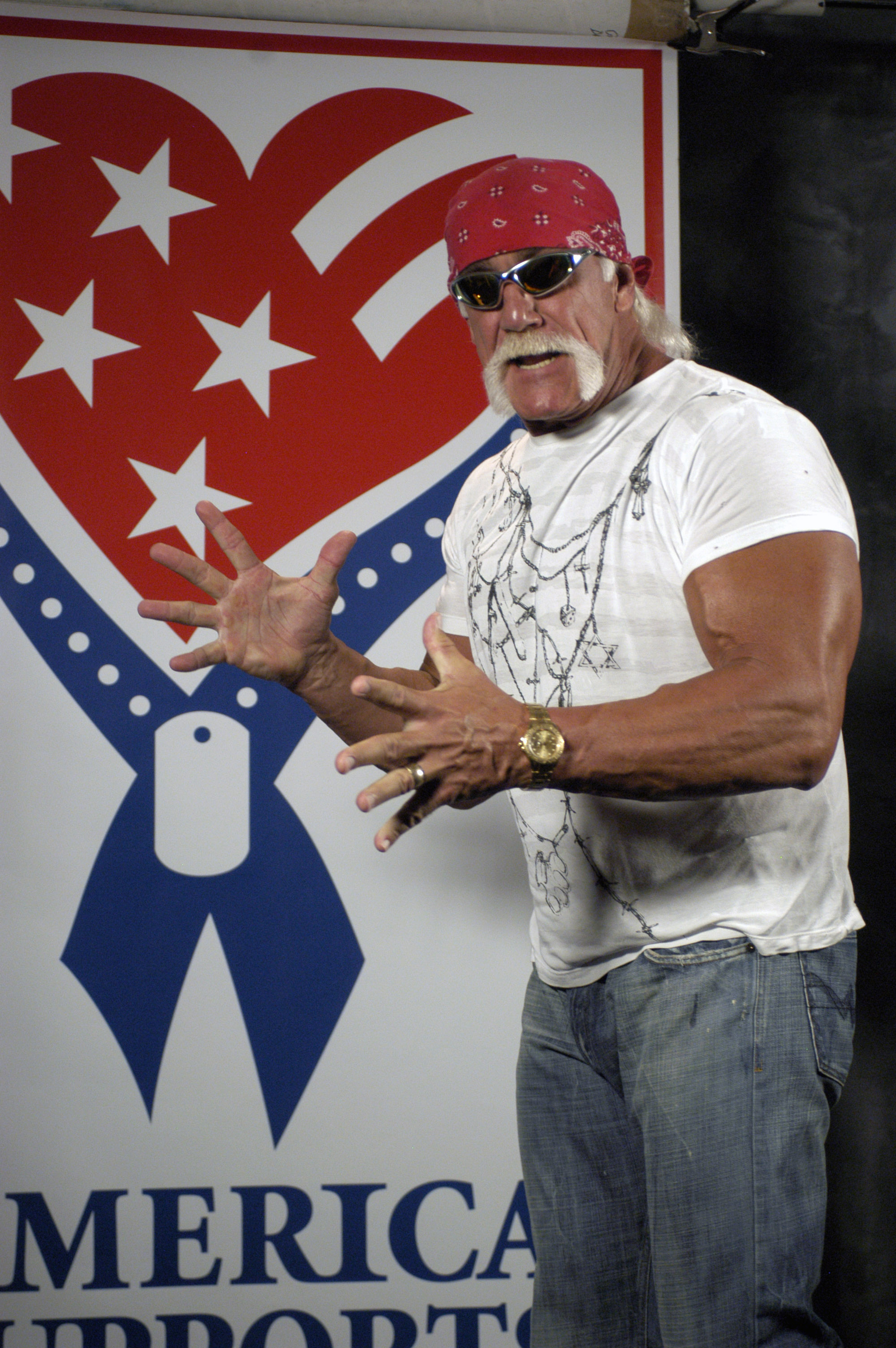 WWE wrestler Hulk Hogan